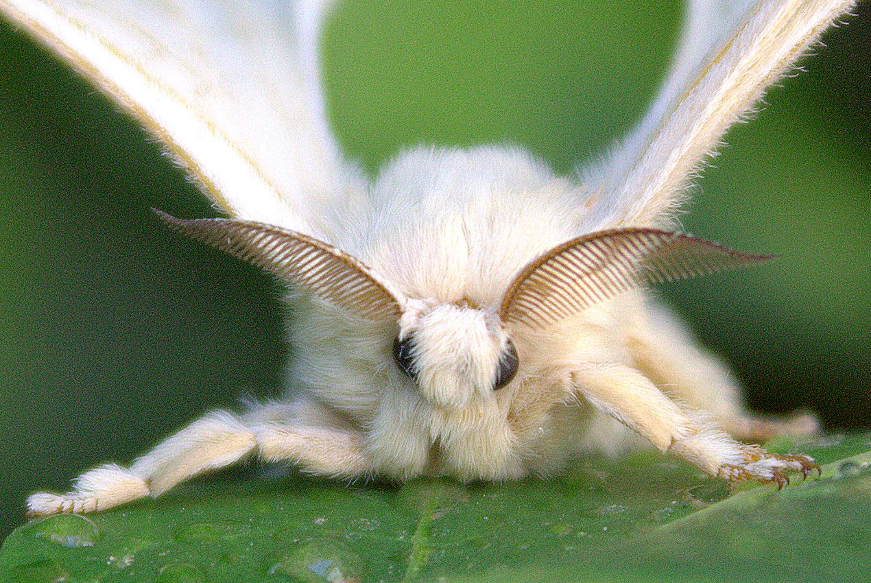 פרפר טוואי המשי Bombyx mori